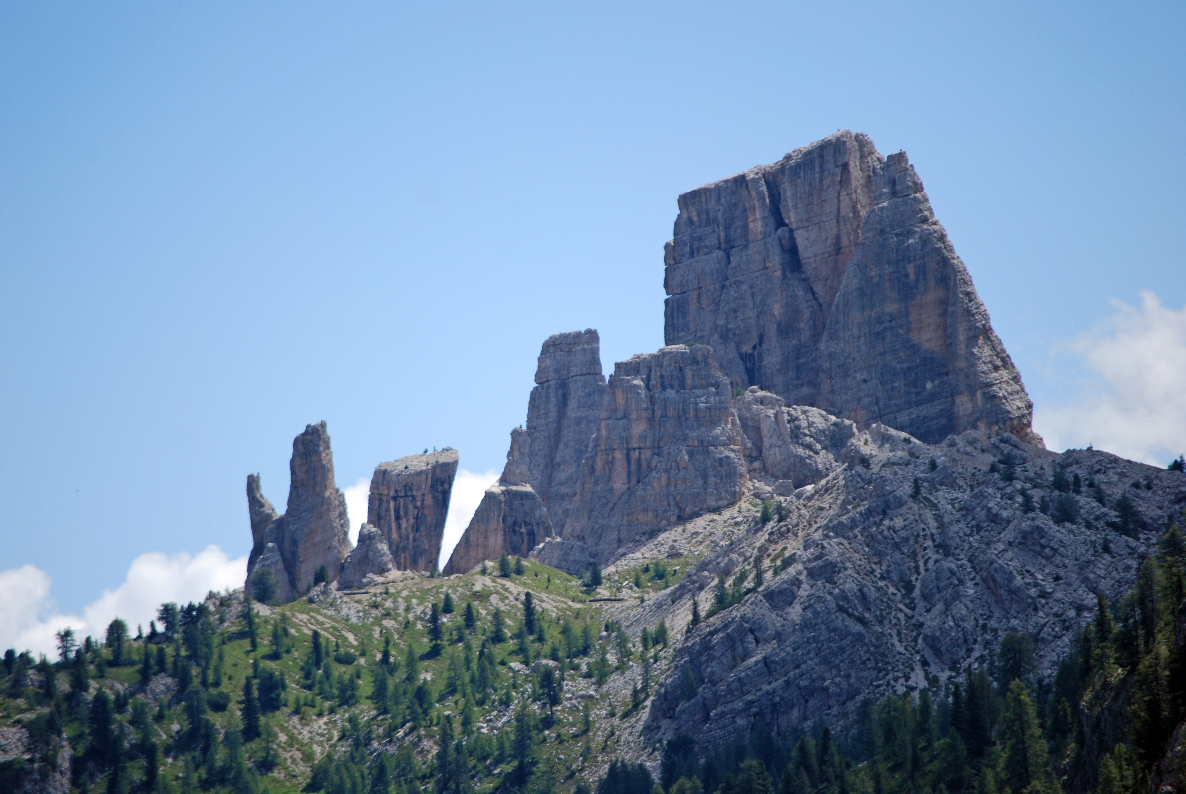 Cinque Torri from Passo Falzarego (from West)